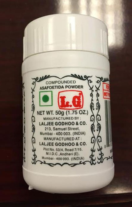 January 7, 2016 - Shakti Group USA LLC Recalls L.G Compounded Asafoetida Powder Because Of Possible Health Risk. For additional information, please refer to the company issued press release available on FDA’s web site at